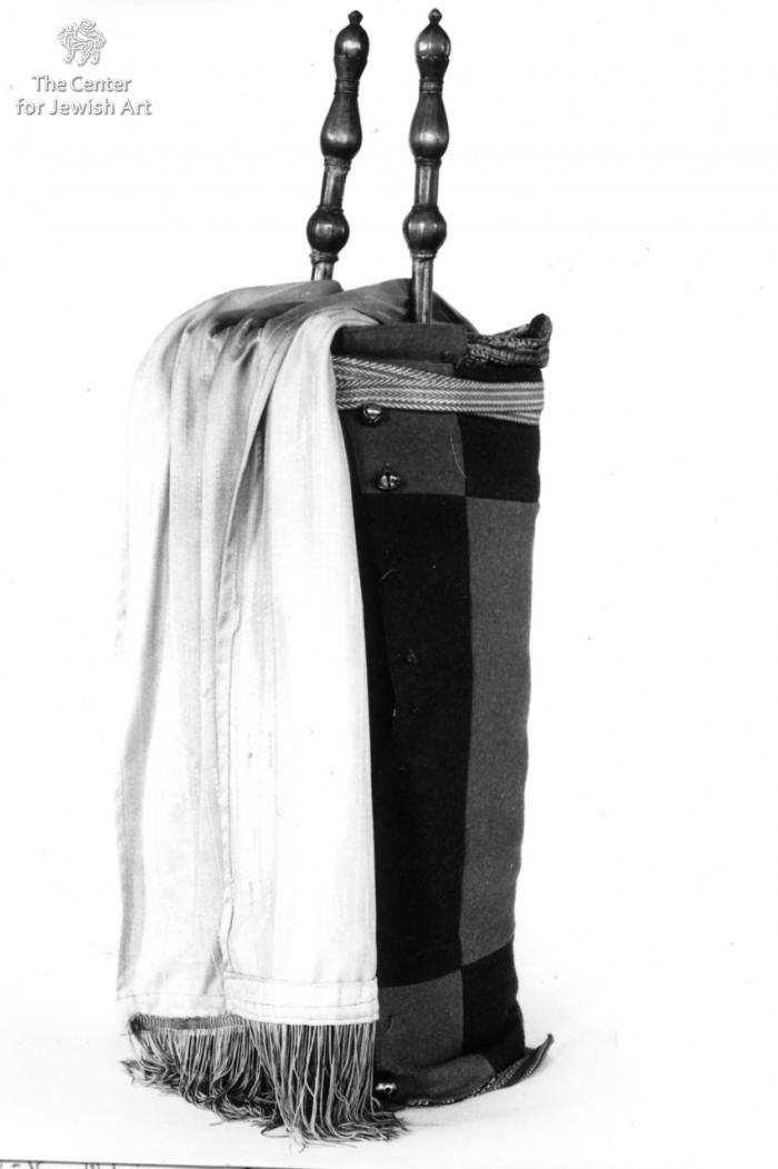 A black-and-white photograph of a Yemenite Torah case replete with finials, photo courtesy of the Center for Jewish Art (an affiliate of the Hebrew University of Jerusalem).